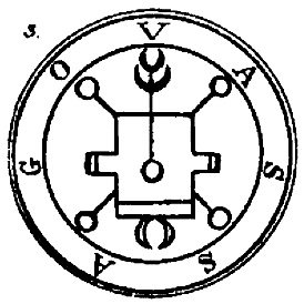 The seal of Vassago